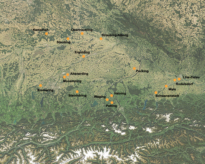 Location of major archeologic sites from 6th and 7th century Bavarians